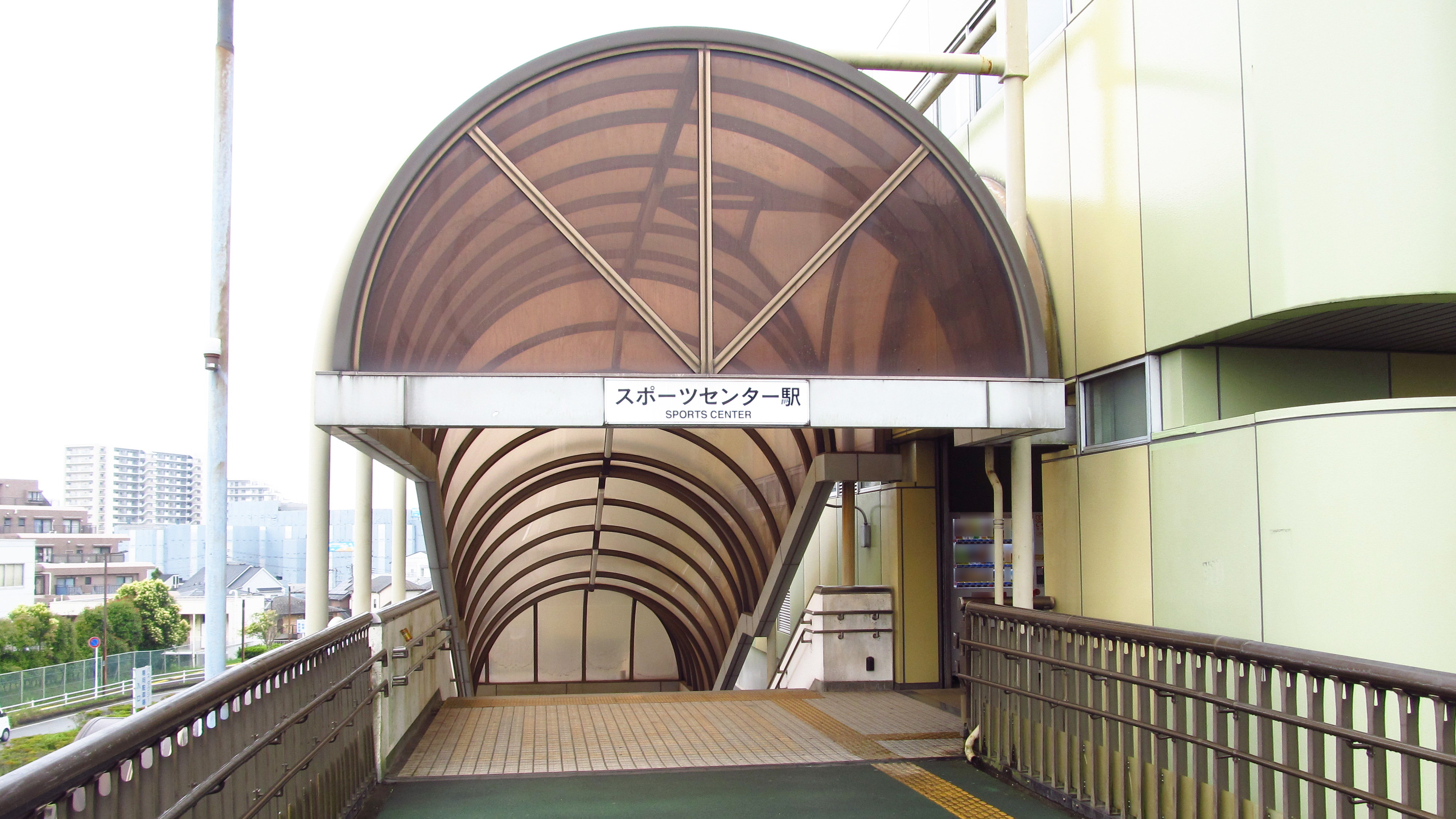 The northeast side entrance to Sports Center Station on the Chiba Urban Monorail in Chiba city, Chiba prefecture, Japan